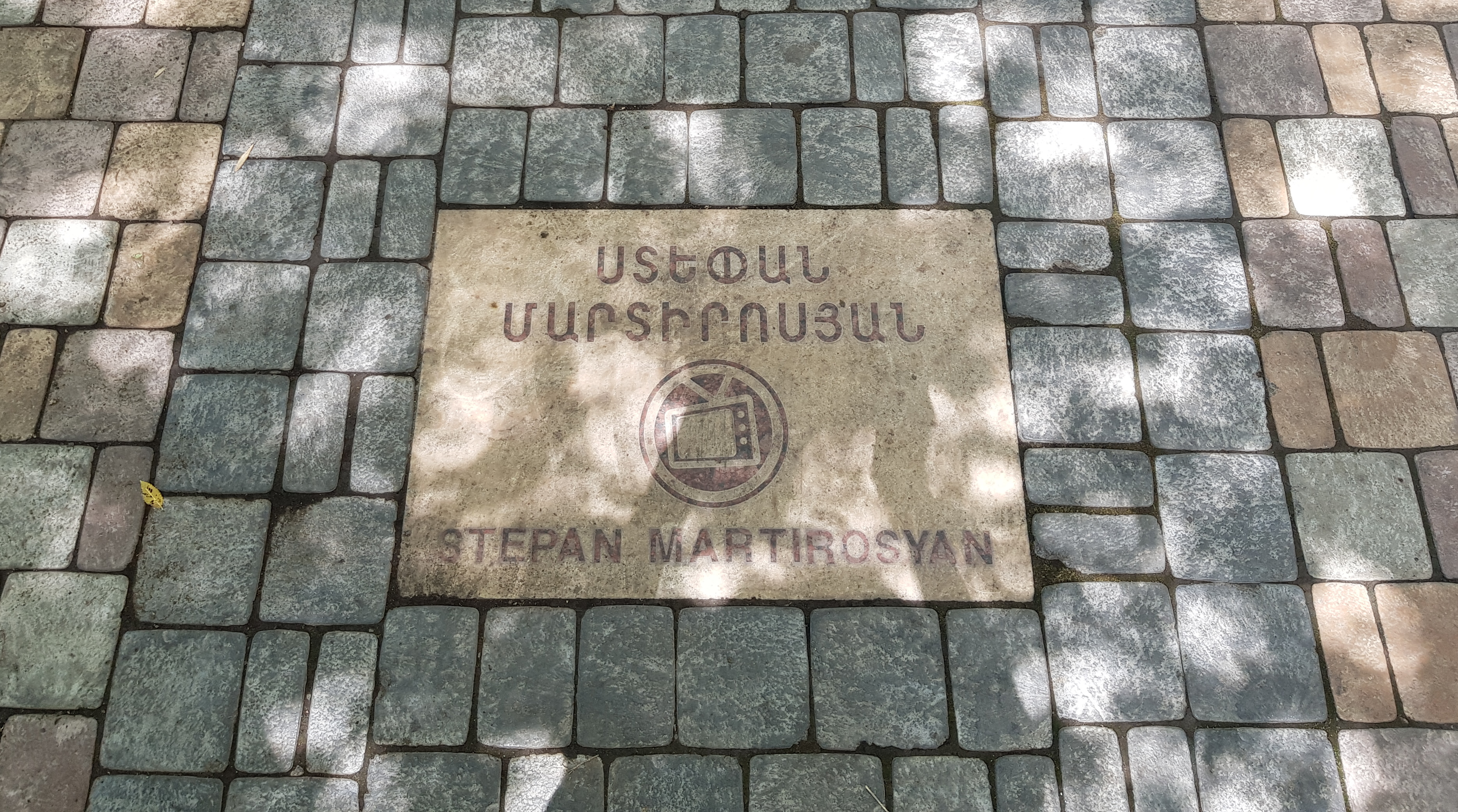 Alley of Devotees, Yerevan